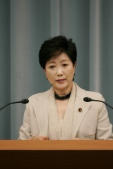 Yuriko Koike was the Minister of the Environment on October, 2005.